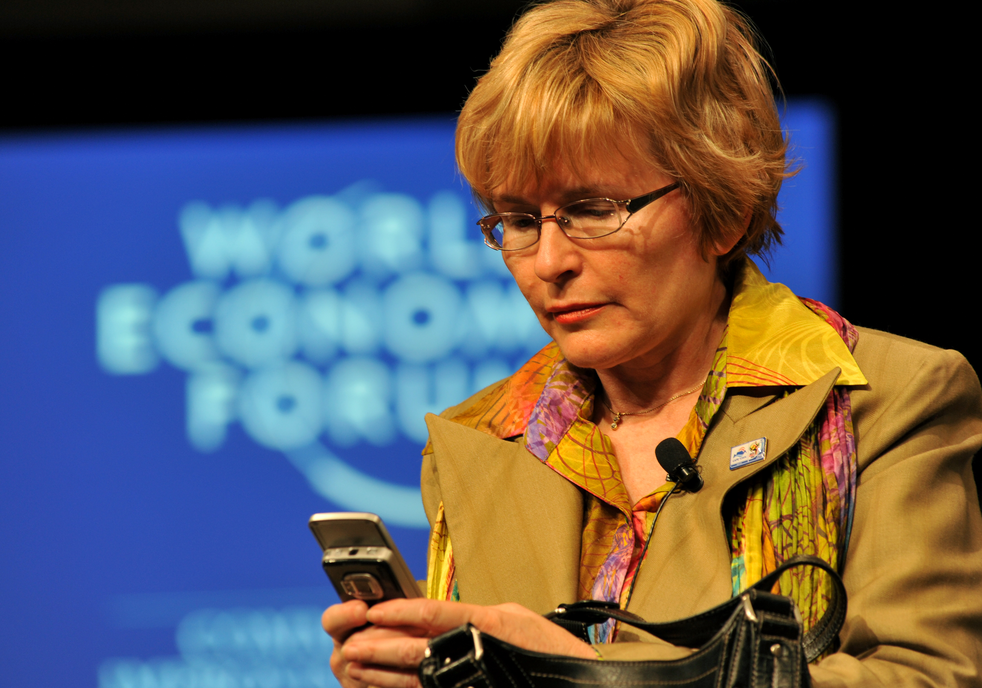 CAPE TOWN/SOUTH AFRICA, 11JUN2009 - 2010: Helen Zille, Premier of the Western Cape Province, at Building a Legacy for South Africa held During the World Economic Forum on Africa 2009 in Cape Town, South Africa, June 11, 2009